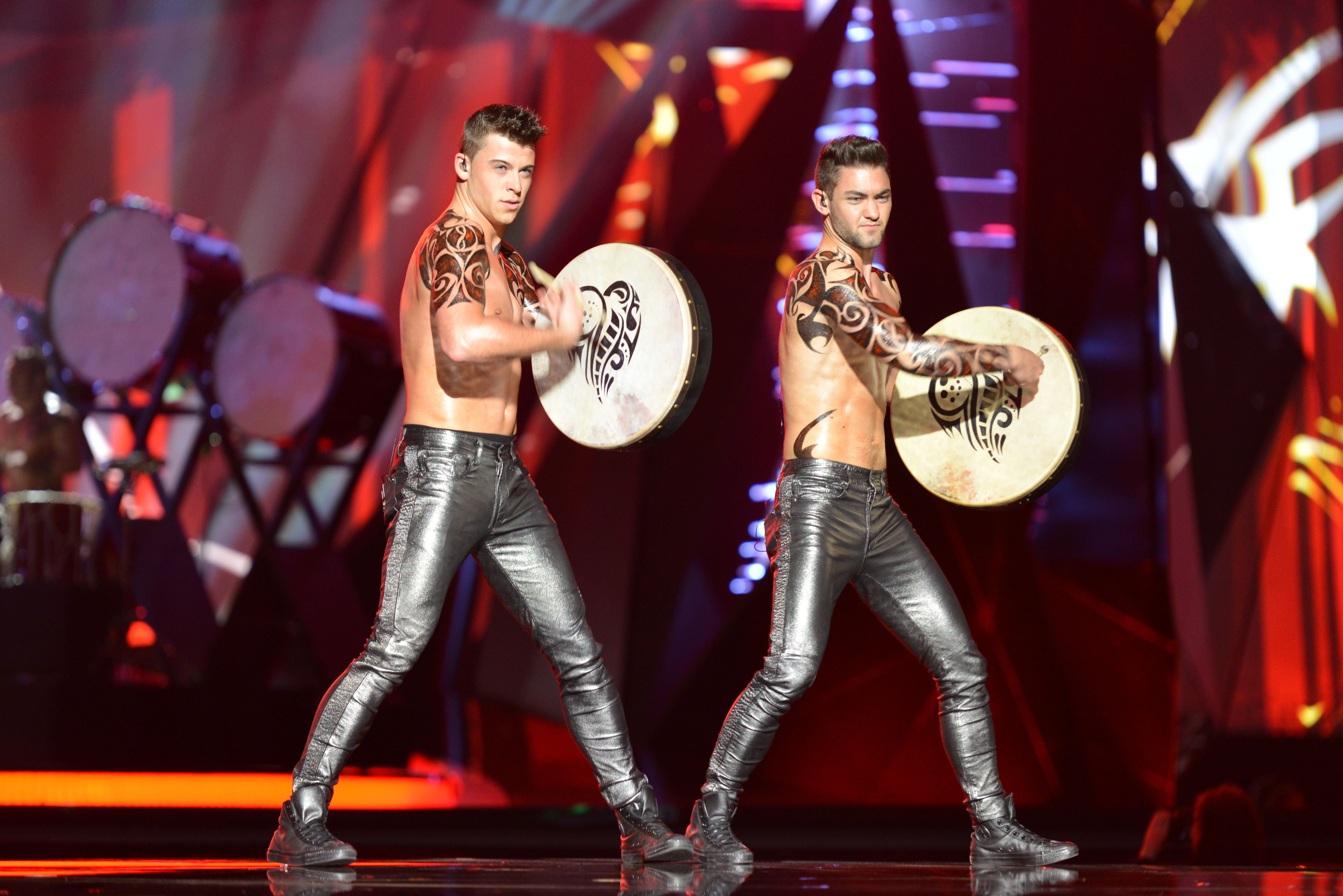 Dancers for Ireland's Eurovision song 2013: Ryan Dolan - Only Love Survives.